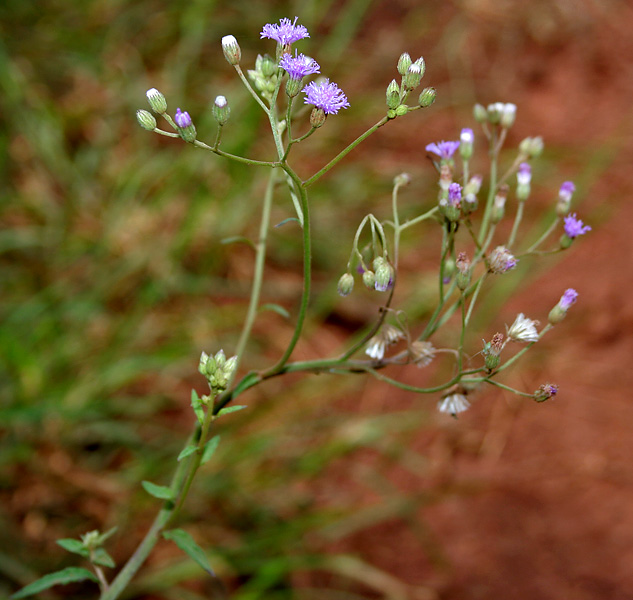 Cyanthillium cinereum (L.) H.Rob. (syn. Blumea chinensis (L.) DC.; Conyza chinensis L.; C. cinerea L.; Senecioides cinerea (L.) Kuntze ex Britt. & Wilson; Serratula cinerea (L.) Roxb. ; Vernonia cinerea (L.) Less.; V. cinerea var. parviflora (Reinw.) DC.)- ash coloured fleabane, little ironweed, purple fleabane • Bengali: kukshim • Gujarati: sadori • Hindi: सहदेवी sahadevi • Manipuri: khongjainapi • Marathi: सहदेवी sahadevi • Oriya: biranji • Sanskrit: सहदेवी sahadevi • Tamil: பூவங்குருந்தல் puvamkuruntal • Telugu: సహదేవిచె sahadevi- at Ananthagiri Hills, in Rangareddy district of Andhra Pradesh, India.